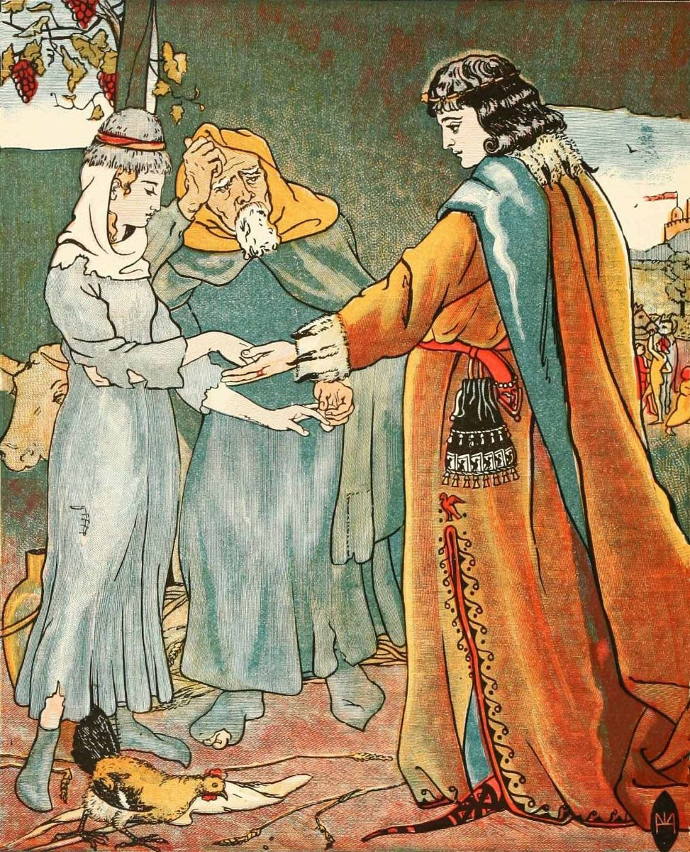 Illustration from Mary Eliza Haweis' Chaucer for Children (1882).